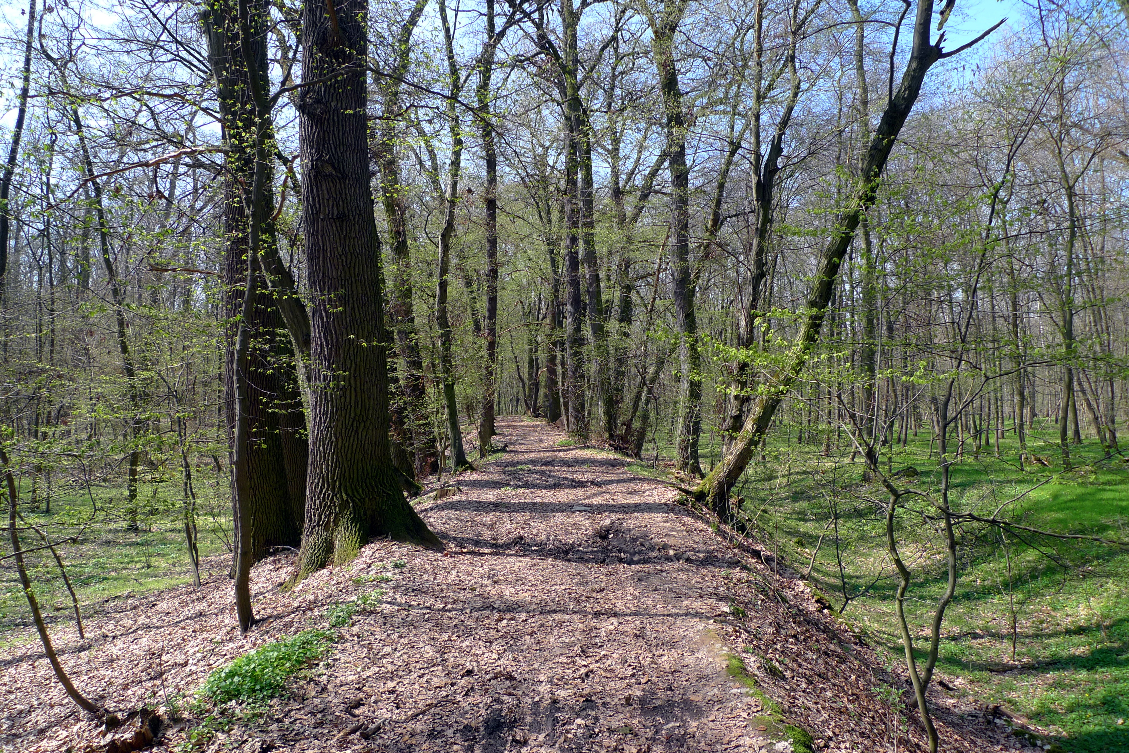 Hrbáčkovy tůně nature reserve and Budečská hráz in Central Bohemia, Czech Republic. Česky: Přírodní rezervace Hrbáčkovy tůně a Budečská hráz ve Středočeském kraji.